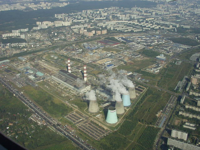 Power plant 26 "Southern" (ТЭЦ-26 "Южная") in Moscow, aerial view